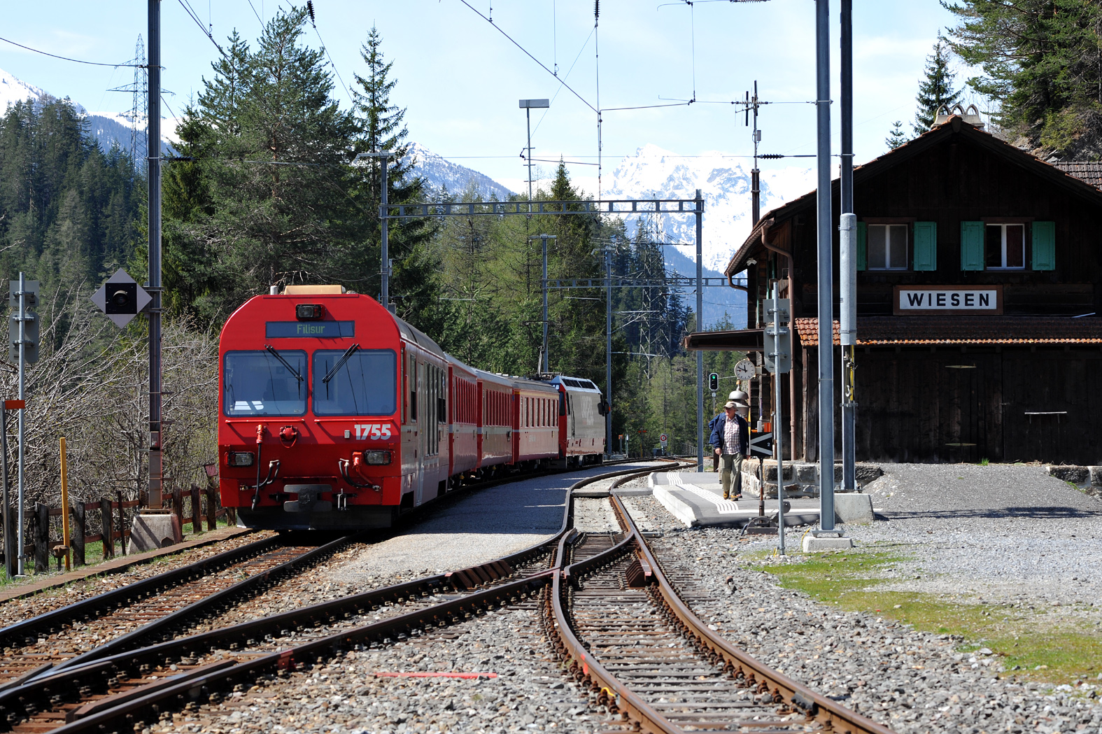 Wiesen station RhB; train to Filisur with locomotive RhB Ge 4/4 III 648 and cab coach BDt 1755.